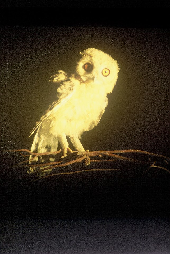 Strix hadorami in Ein Gedi. Photographed by yoss iaud